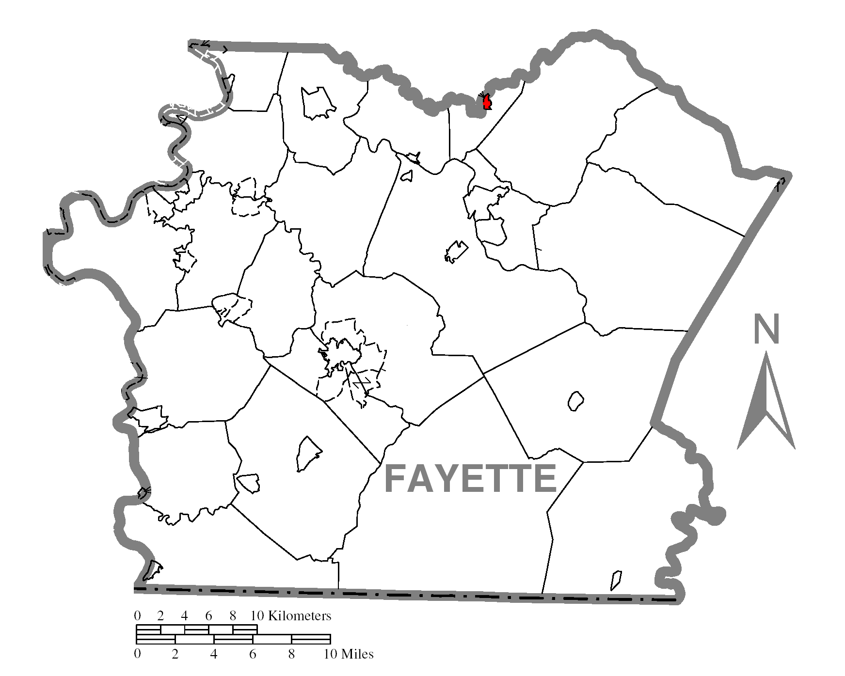 Map of Fayette County higlighting Everson.